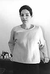 Isabelle Azoulay on April 6, 2000